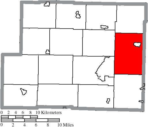 Map of the municipal and township boundaries of Harrison County, Ohio, United States, as of the 2000 census, with the location of Green Township highlighted. Township borders are shown only in unincorporated areas in order to differentiate incorporated and unincorporated areas more clearly.